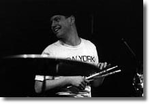 Darren Mor-X playing live with Steel Pole Bath Tub